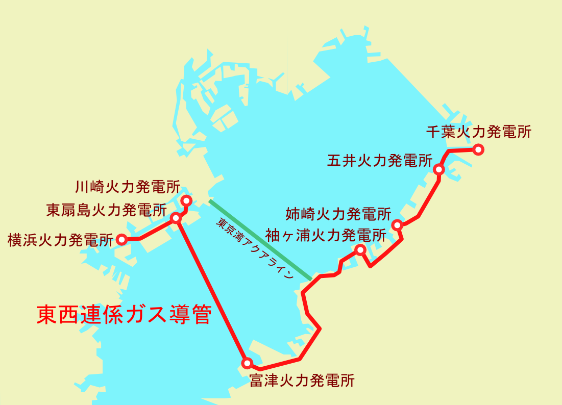 Route map of Tozai-renkei gas pipeline, which was laid in 18 km long tunnel under the bay of Tokyo.